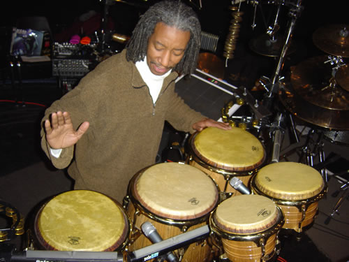 Bashiri Johnson playing percussion instruments.